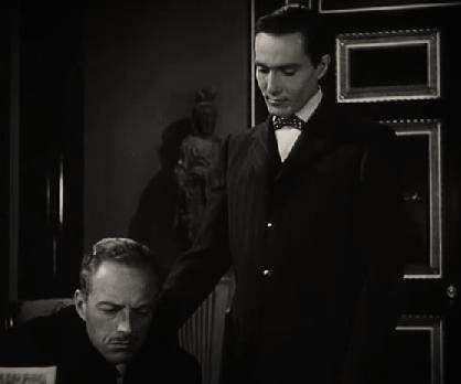 Douglas Walton (left) & Hurd Hatfield in The Picture of Dorian Gray - trailer (cropped screenshot)